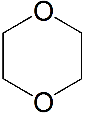 1,4-Dioxane